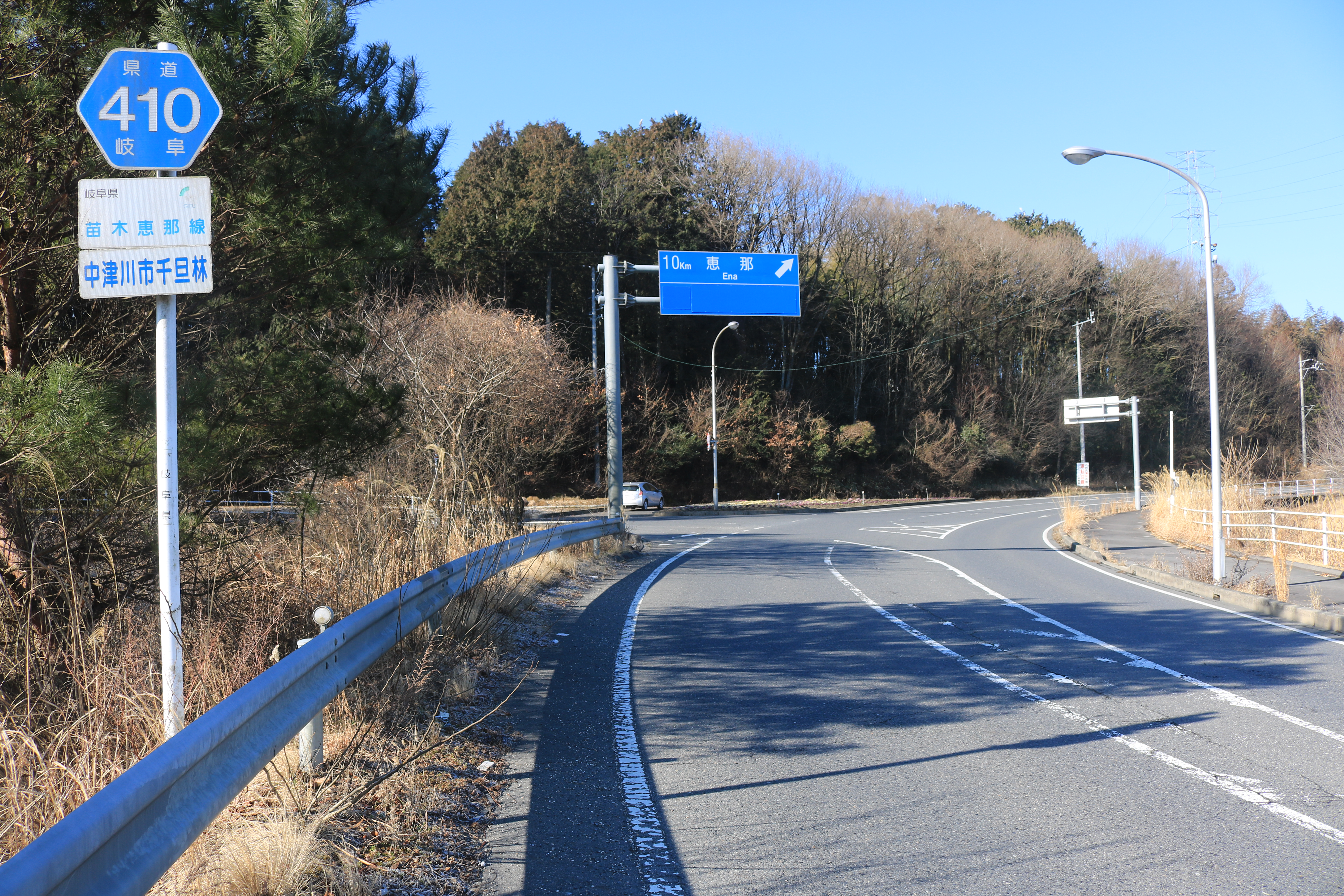 Gifu Prefectural Road Route 410 in Sendanbayashi, Nakatsugawa, Gifu prefecture, Japan.